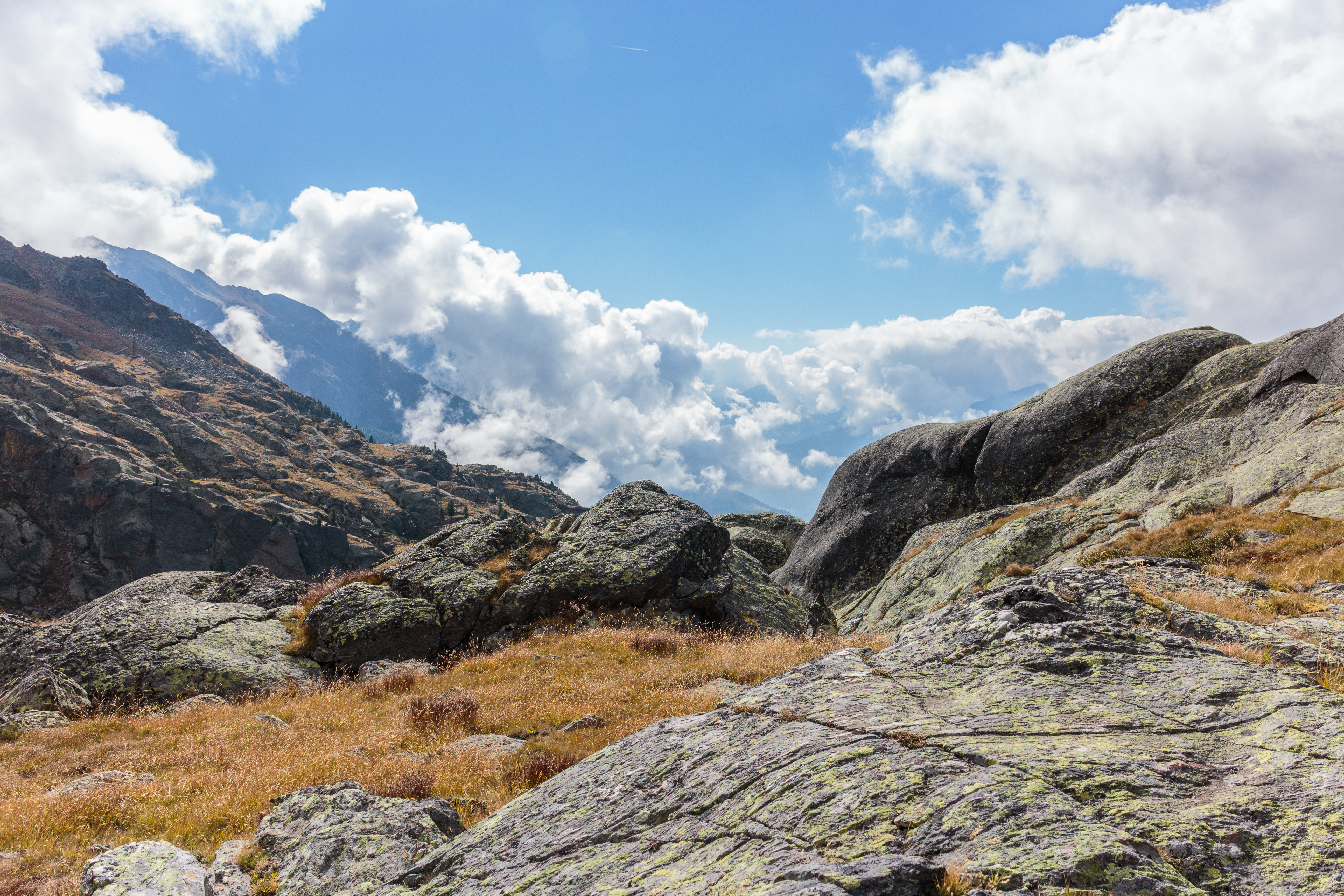 Mountain hiking of parking in power station Malga Mare to Lago Lungo (2553m). Rocky mountain plateau.